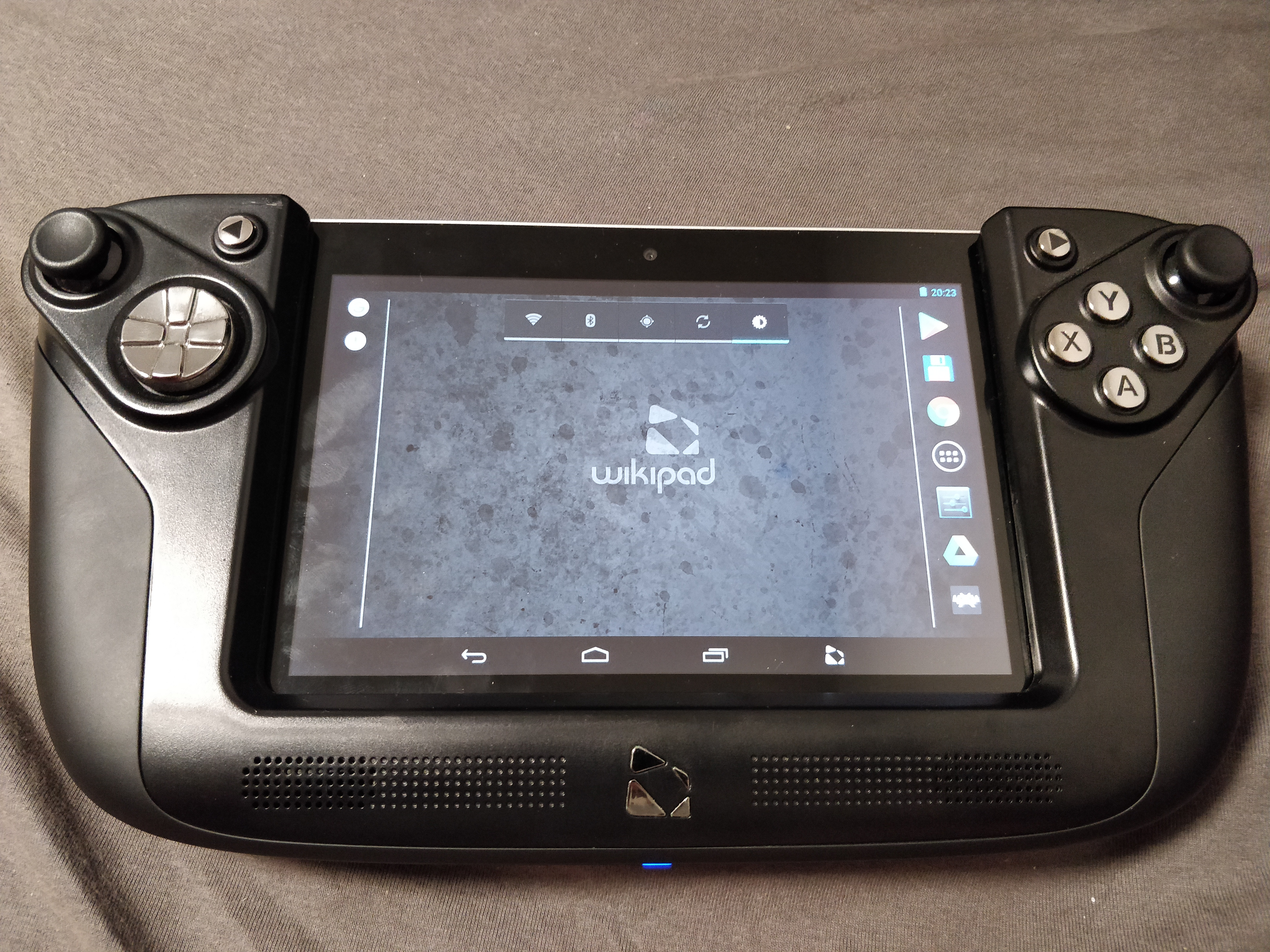 Wikipad 7" gaming tablet